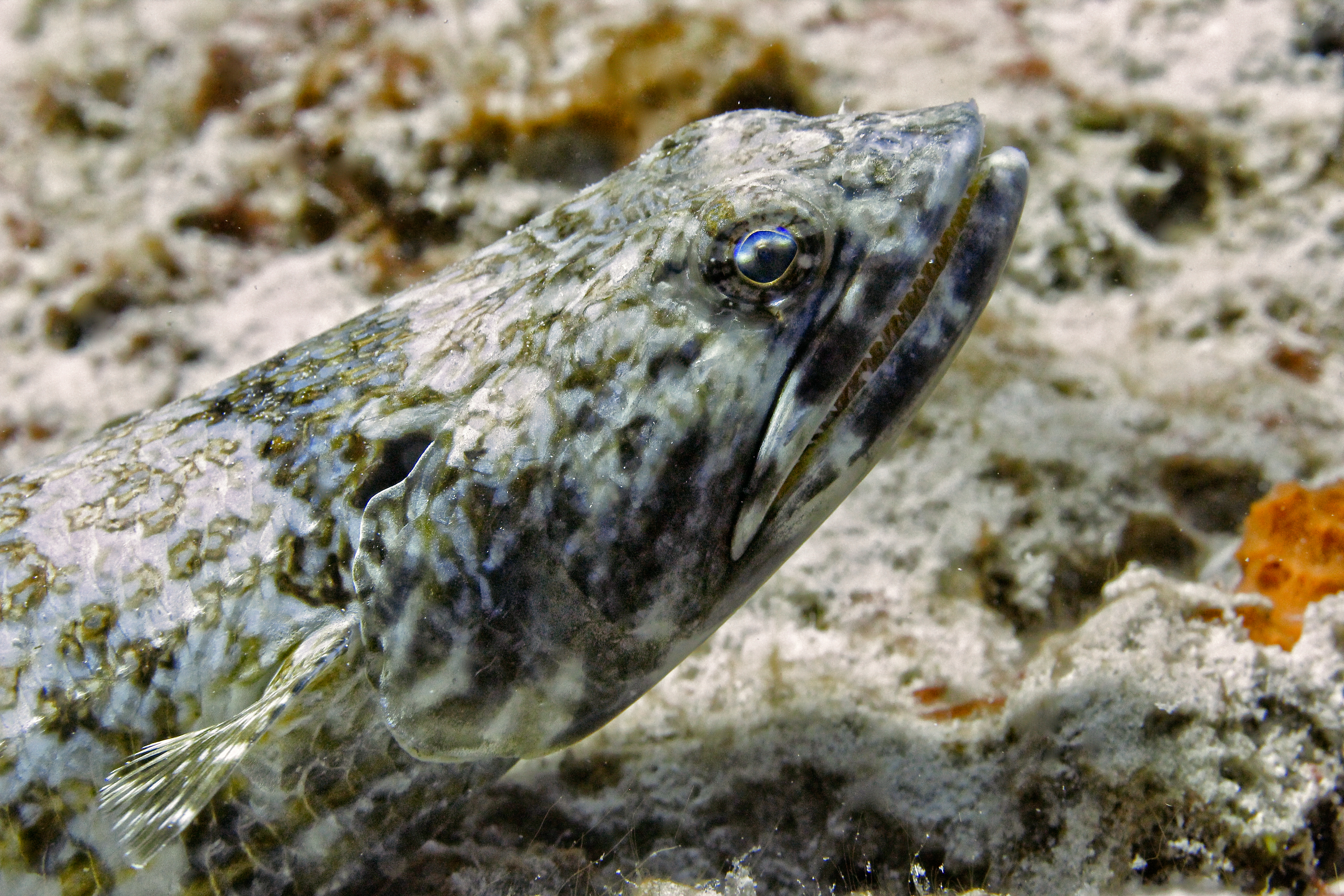 Synodus intermedius (lizardfish)